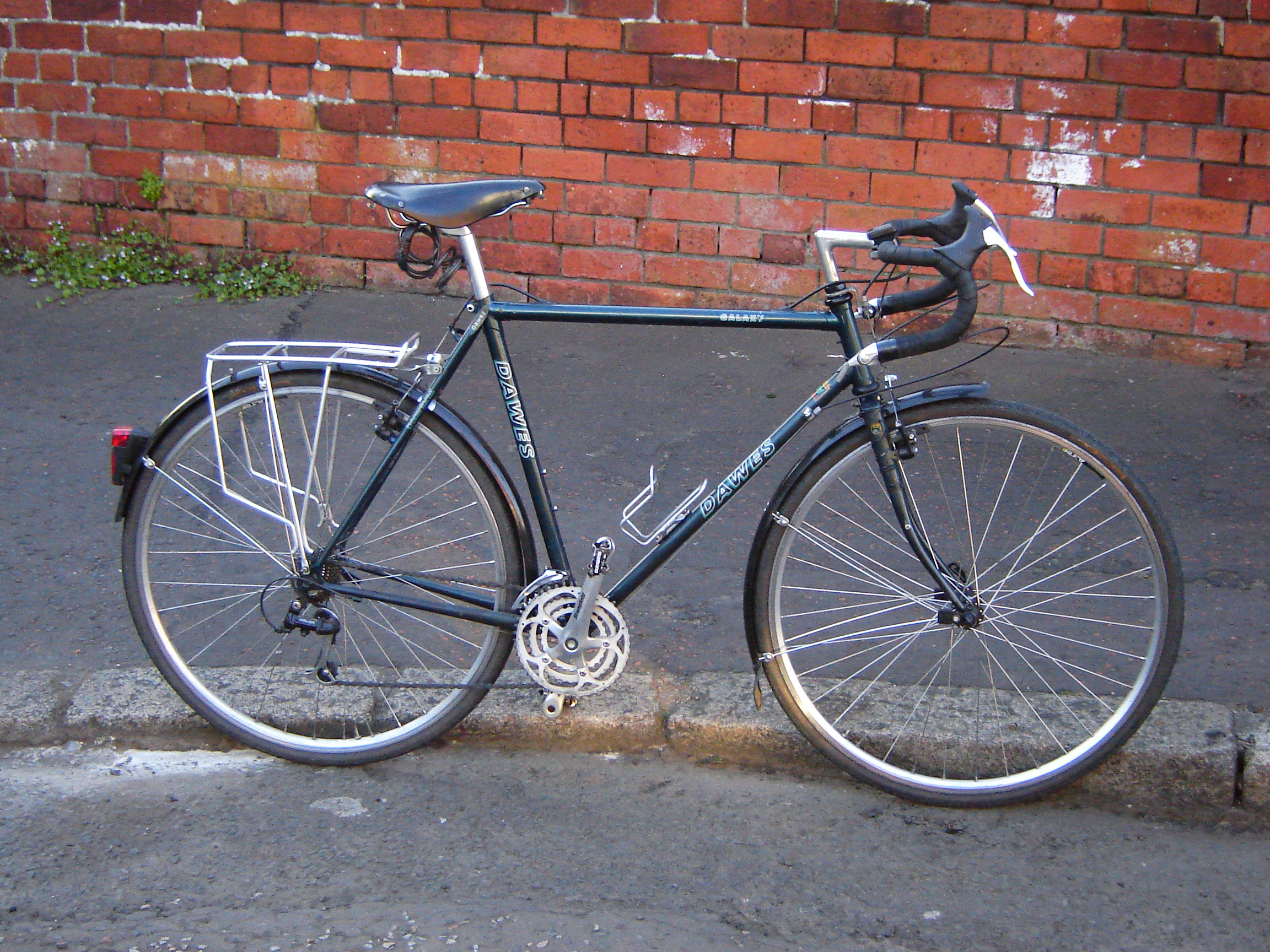 A 1995 Dawes Galaxy, photographed in 2007. Brooks B17N saddle, Nitto Randoneeur handlebars, Stronglight Impact triple, Mavic A319 rims, other components are all Shimano Deore LX.